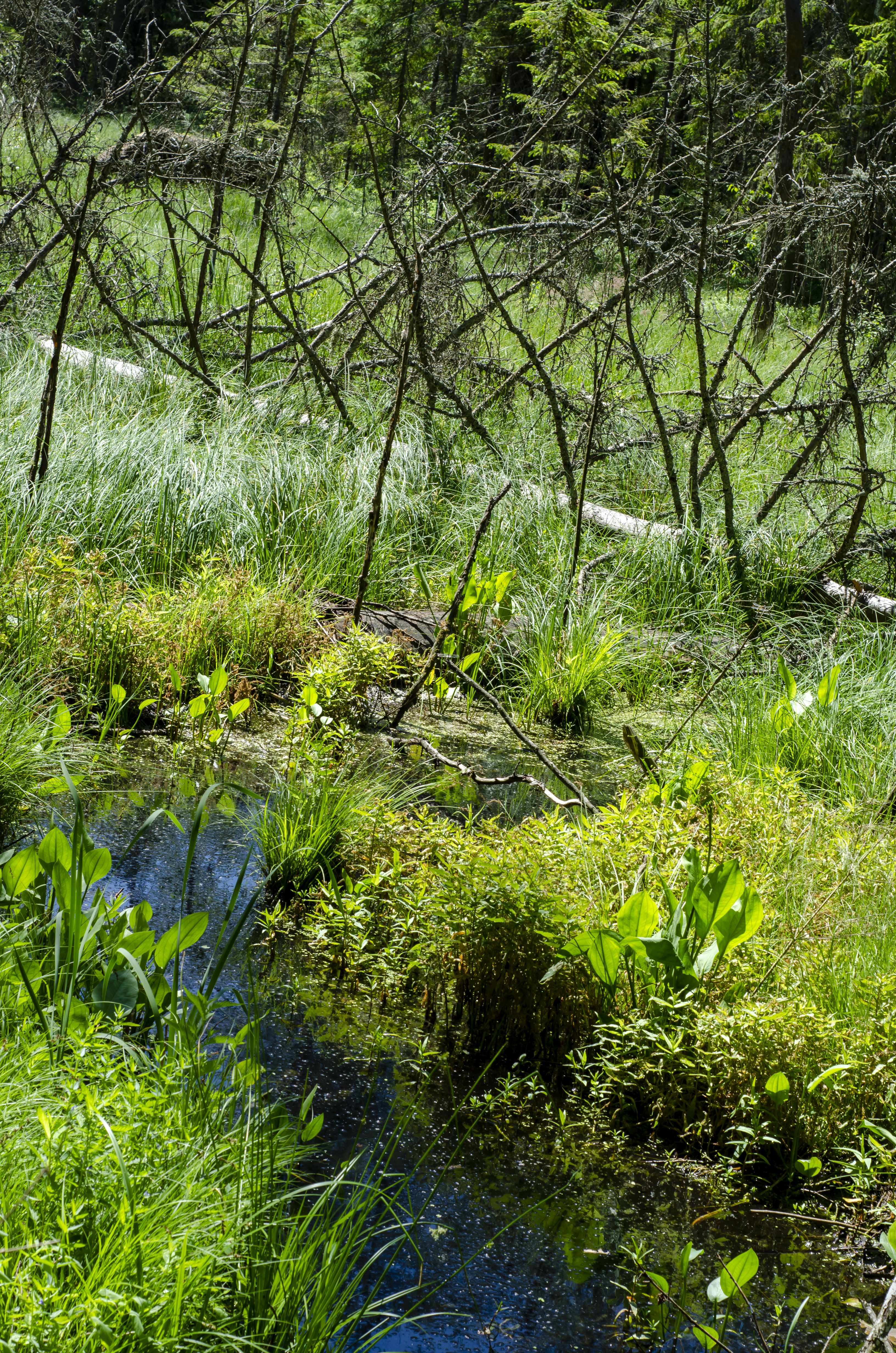 Krikaly, Dunilavičy, Pastavy District, Vitebsk Region, Belarus